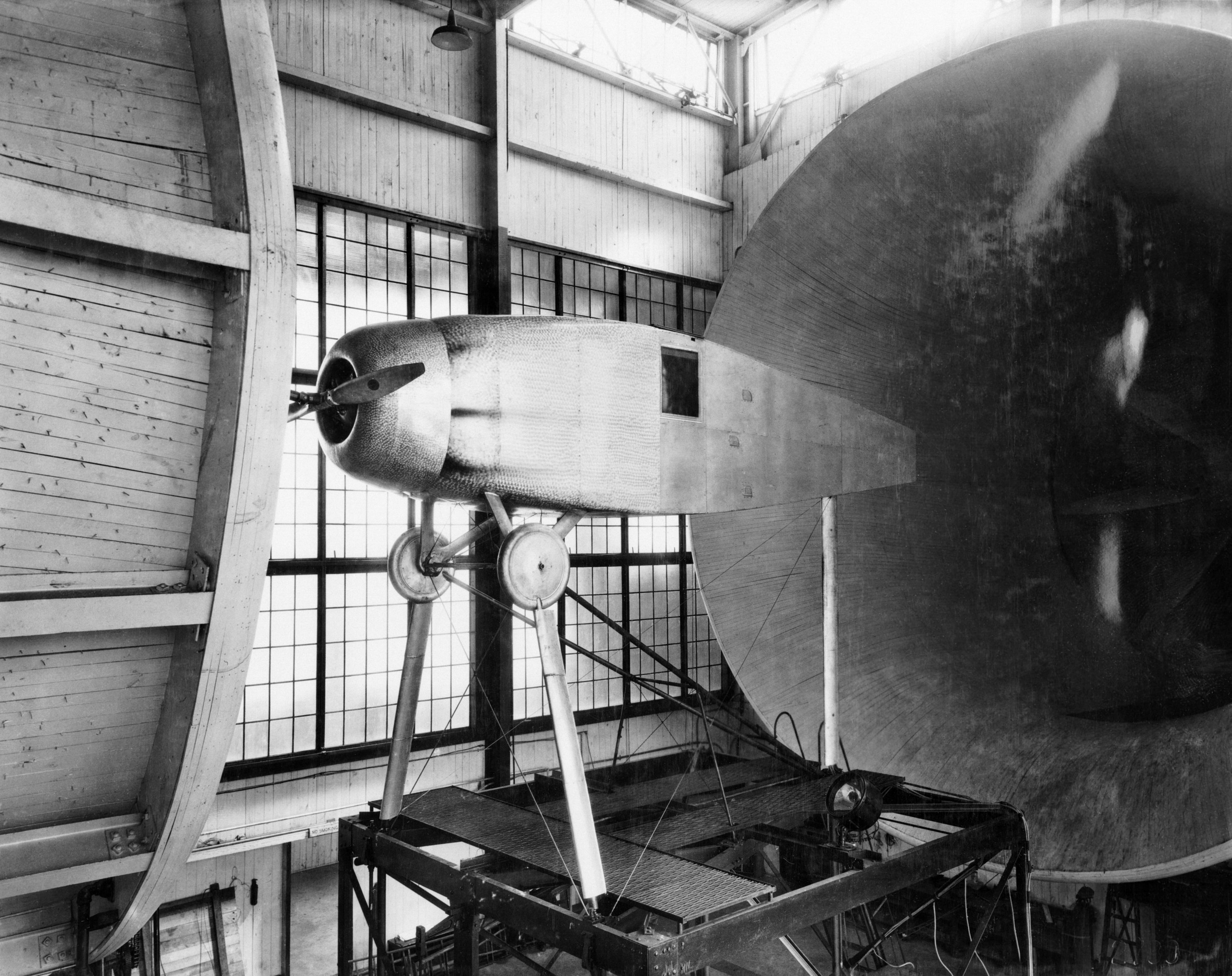 This test fuselage (circa 1926) is fitted with Cowl No. 10, the prototype for the first commercial installations. Developed in the PRT to reduce air resistance around a radial engine, the NACA Cowl proved to both lower air resistance and improve engine cooling. It earned the NACA its first Collier Trophy in 1929 and rapidly became a standard appliance for radial engines.